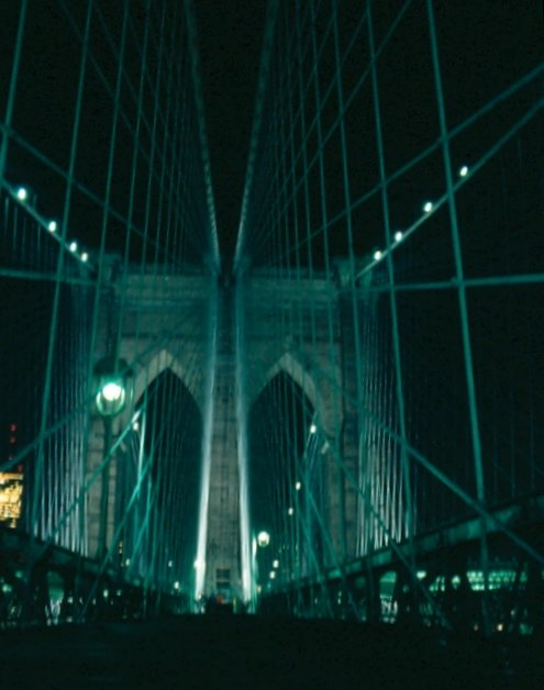 Permission: please cite Rainer Halama as author of this picture. I would also appreciate it, if you inform me when using this picture about where and when it has been used. Brooklyn Bridge at Night